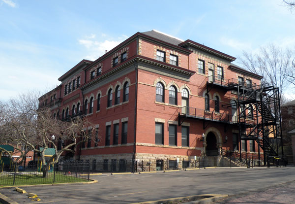 Picture of Wightman School located at 5604 Solway Street in the Squirrel Hill North neighborhood of Pittsburgh, Pennsylvania, on March 20, 2010. The school was built in 1897, and is listed on the National Register of Historic Places. Architect: Ulysses J. Lincoln Peoples. Architectural style: Classical Revival, Romanesque Revival.